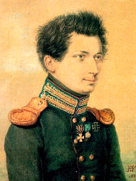 Yakushkin Ivan Dmitriyevich